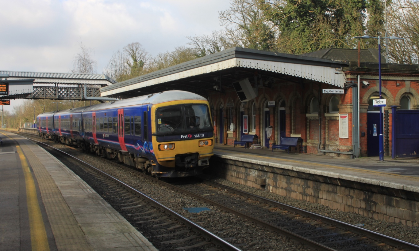 Great Western Railway's 165111 calls at Taplow with a service to London Paddington.